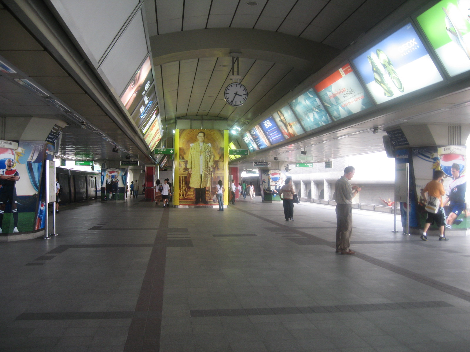 BTS Siam Station (Bangkok Skytrain).